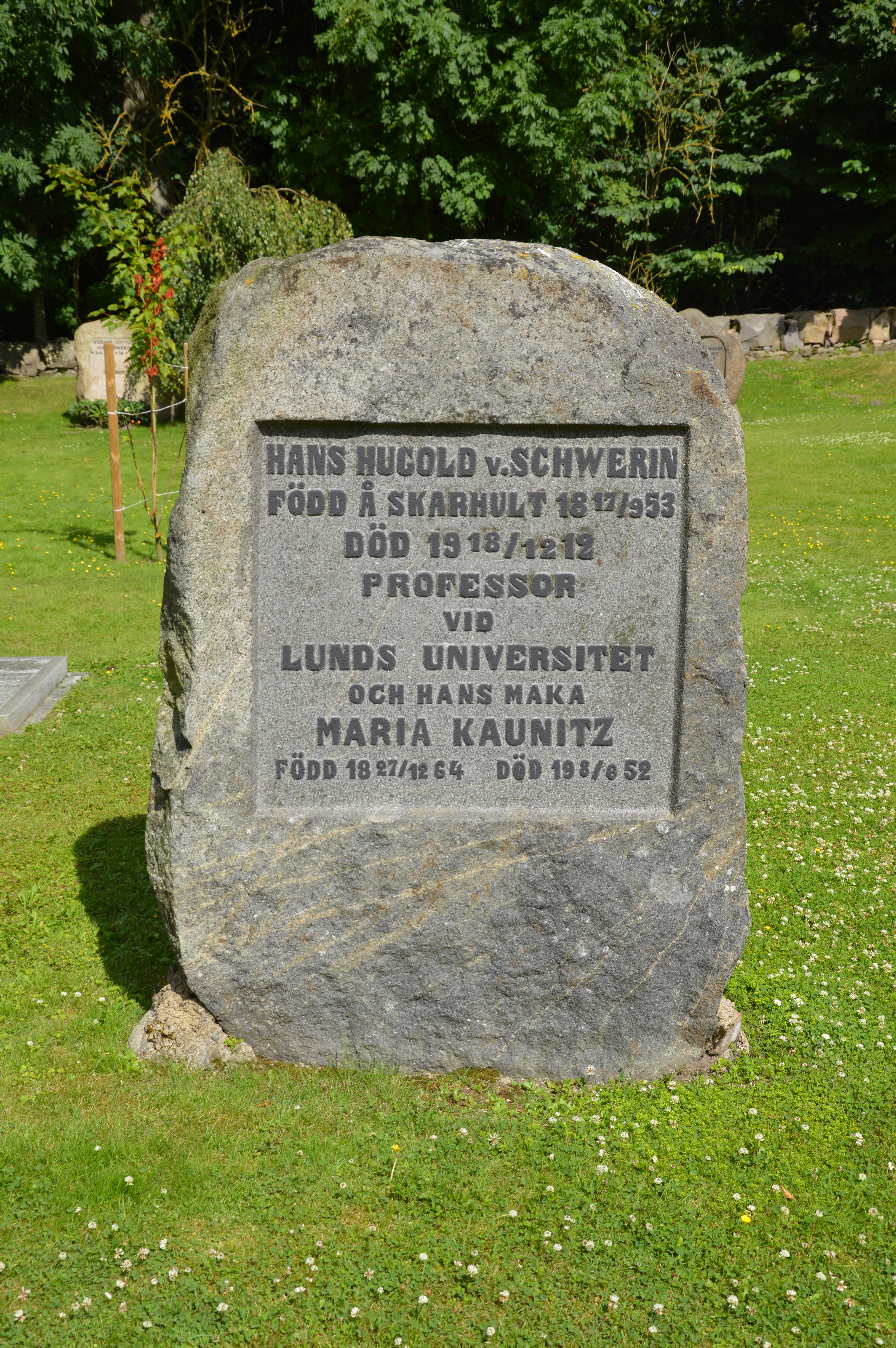 Swedish professor Hans Hugold von Schwerin's (1853-1912) grave. Skarhults churchyard, Eslöv, Sweden.